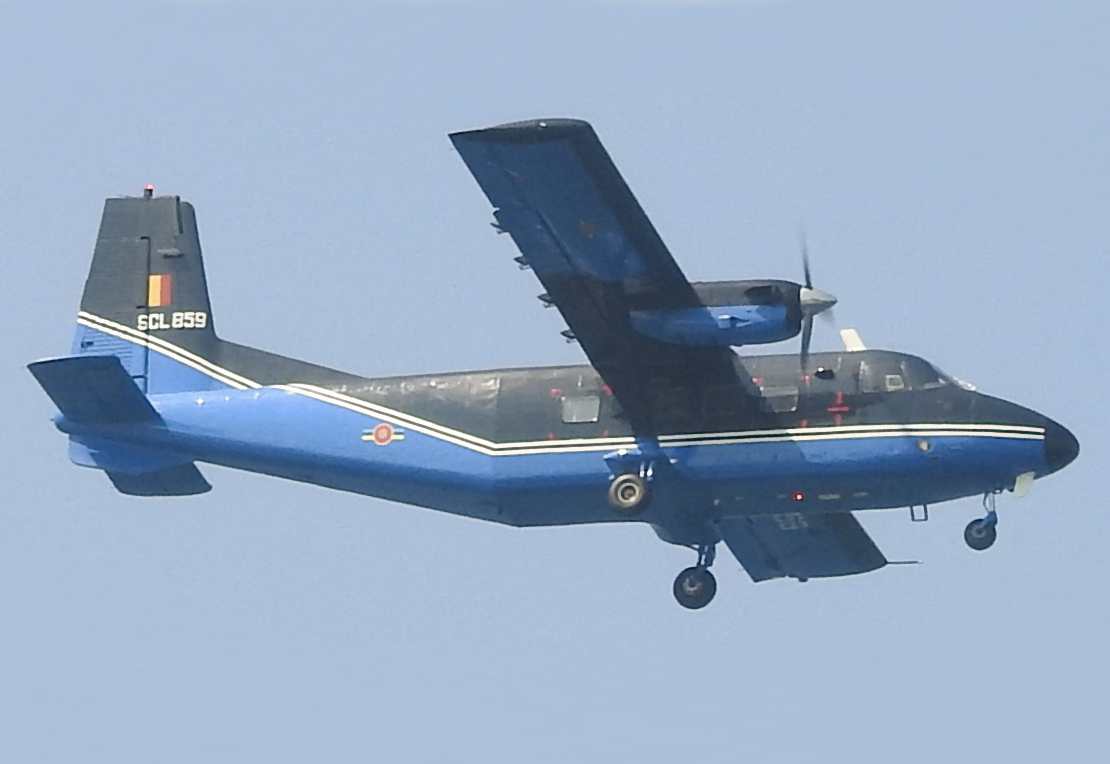 A SLAF Harbin Y-12